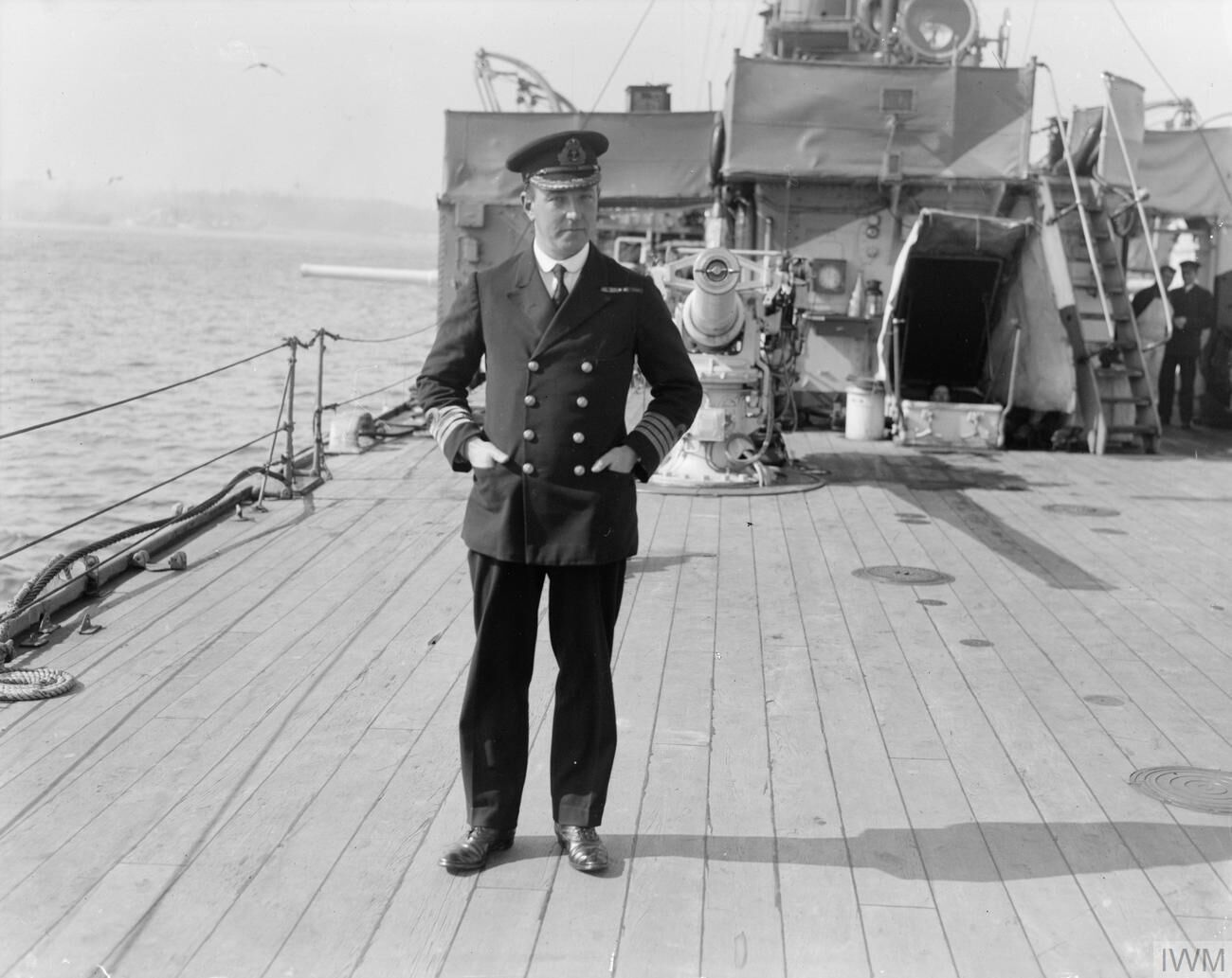 Photograph of Gordon Campbell VC.